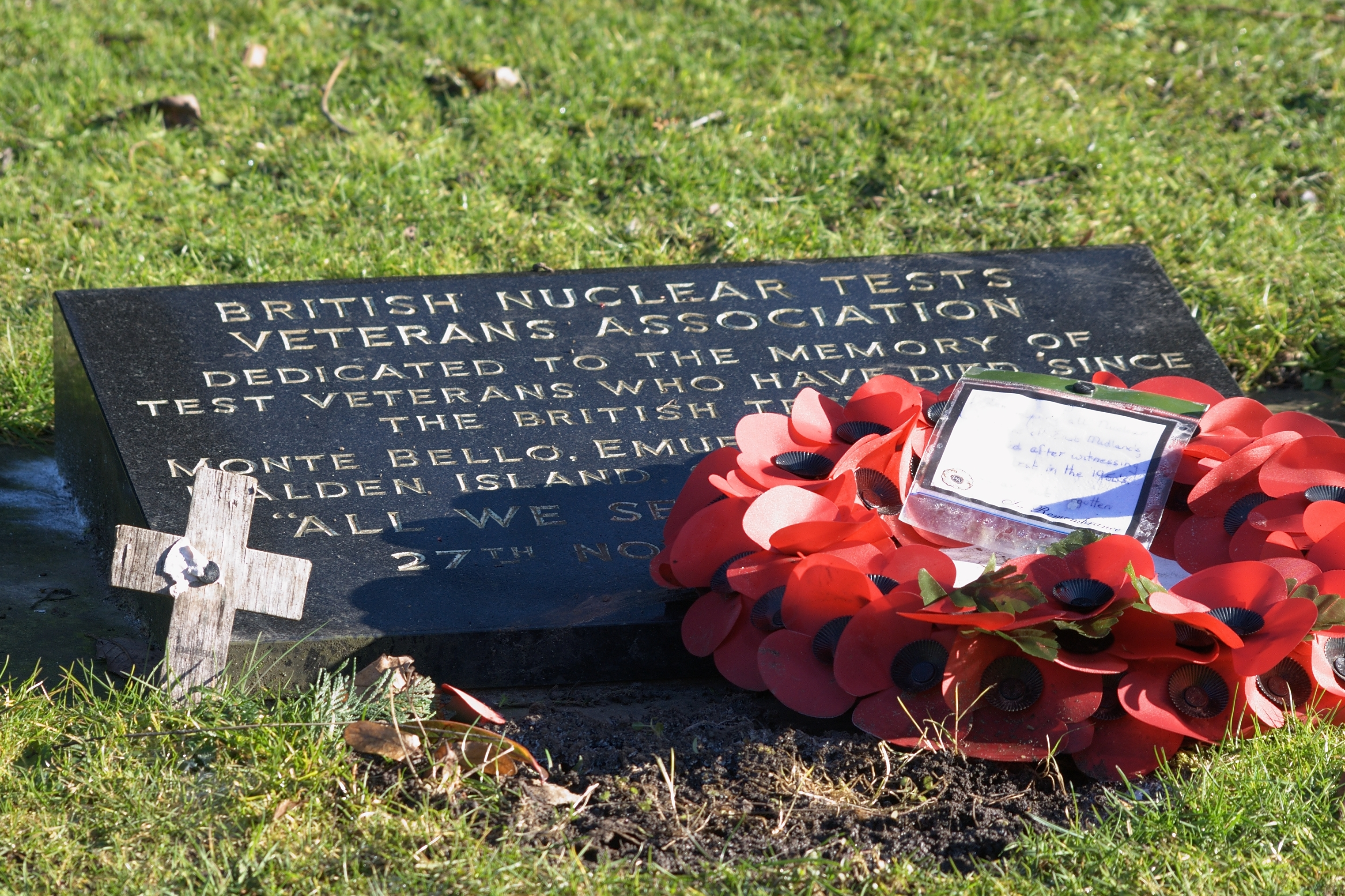 British Nuclear Tests Veterans Association monument in Leicester, England